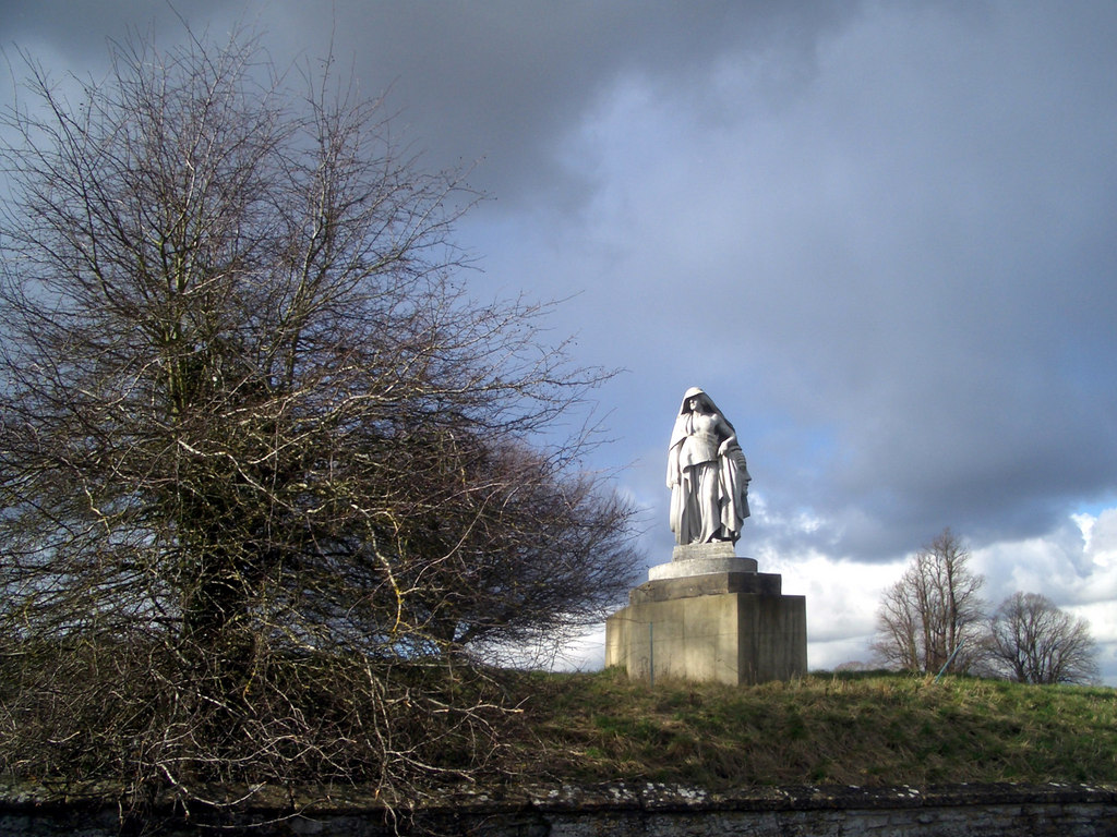 Statue overlooking the A4095 road north of Faringdon, Oxfordshire (formerly Berkshire). The statue is behind the park wall of Faringdon House, which was the home of Lord Berners.